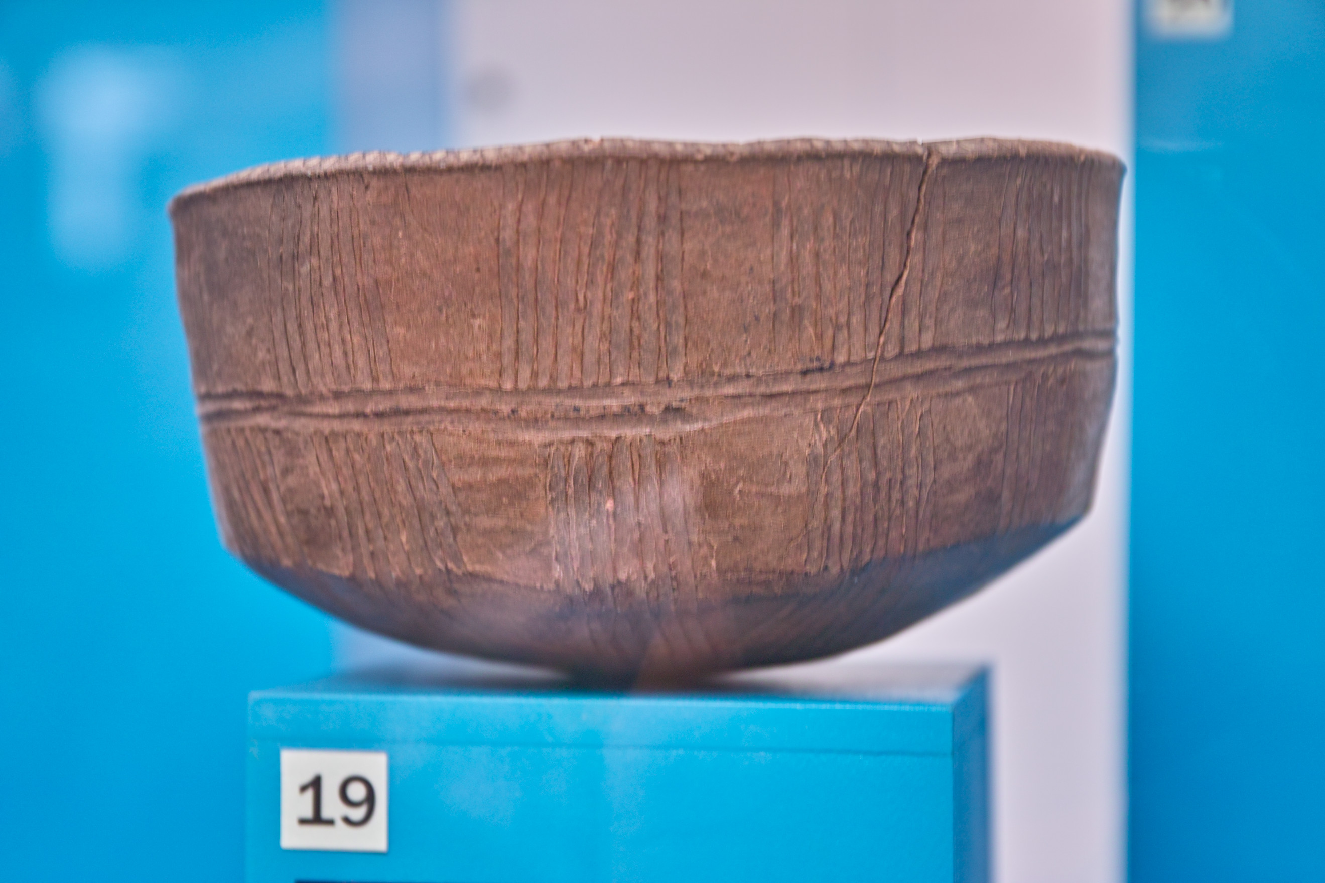 Sample of ceramic in Museo Arqueologico Benahoarita.